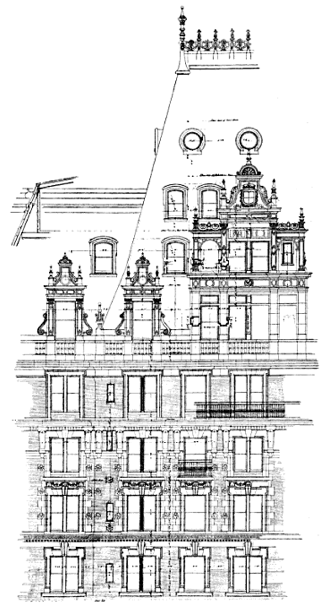 Diagram of the Martinique Hotel (New York City), upper part, 32nd Street elevation. Henry Janeway Hardenbergh, architect